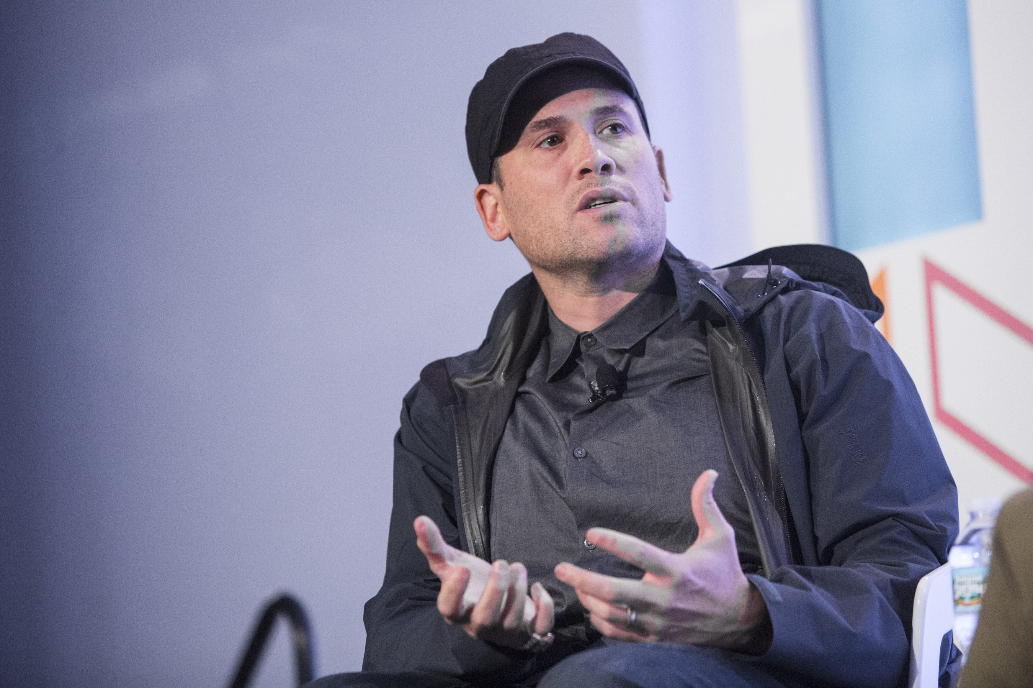 Journalist Megan McCarthy presents A Fireside Chat with Marc Ecko: Convergence Culture + the Death of Demographics at Internet Week HQ on Day 1 of Internet Week 2015 in New York May 18, 2015. Insider Images/Andrew Kelly (UNITED STATES)